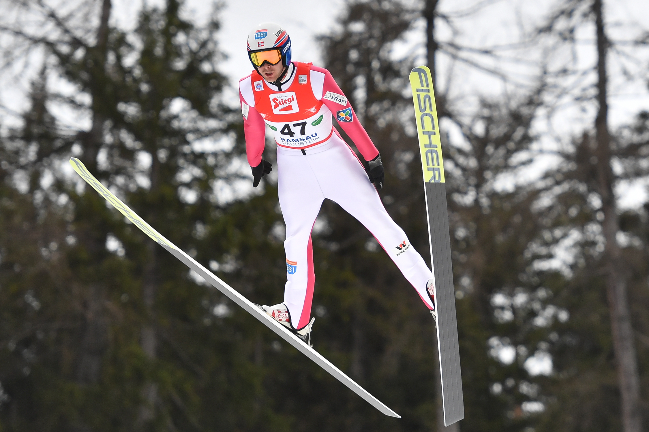 FIS World Cup Nordic Combined, Ramsau/Austria, 2016-12-16 to 2016-12-18.